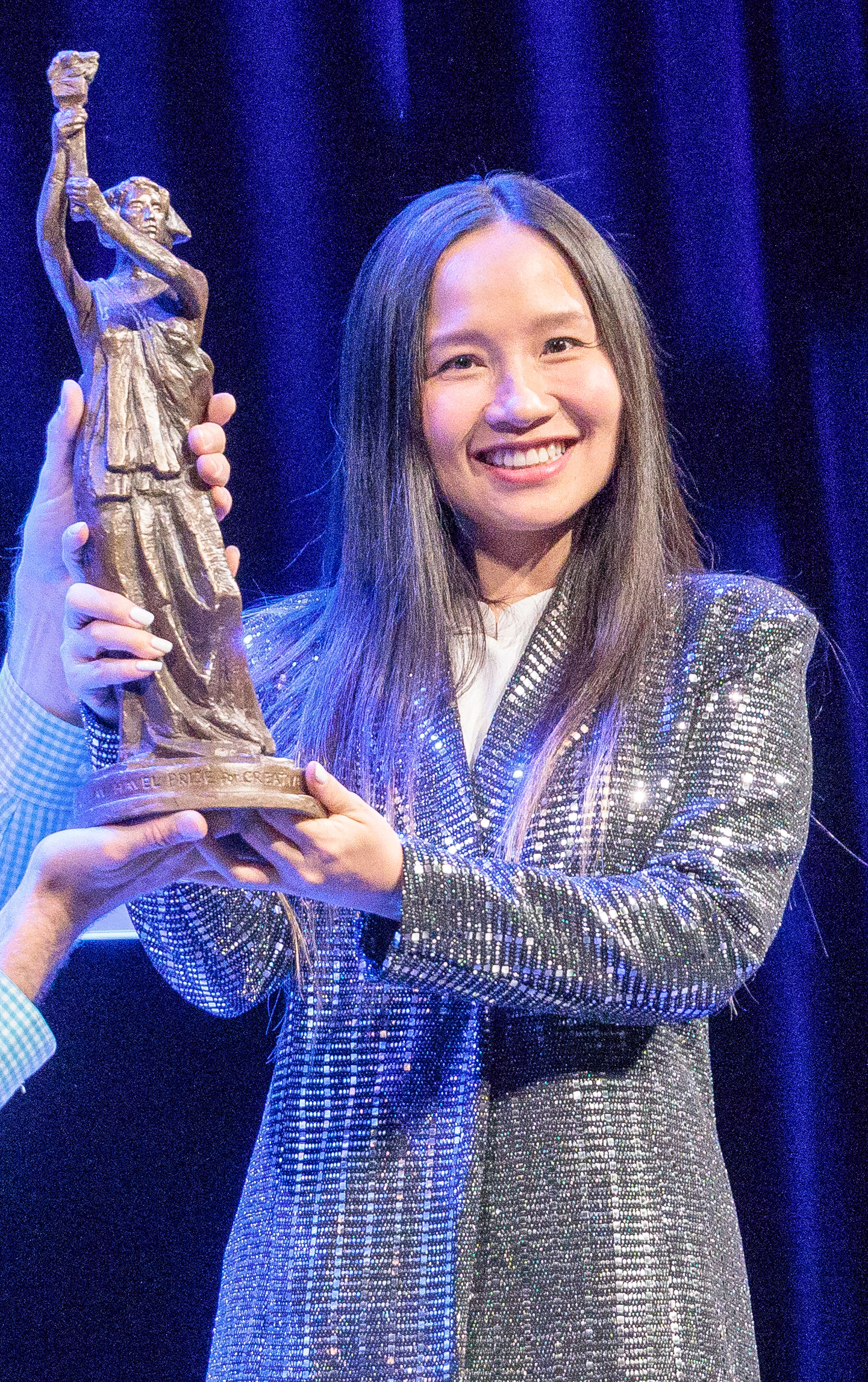 Mai Khoi at the award ceremony for the 2018 Václav Havel International Prize for Creative Dissent.